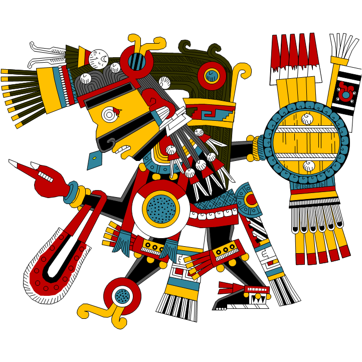 Tezcatlipoca